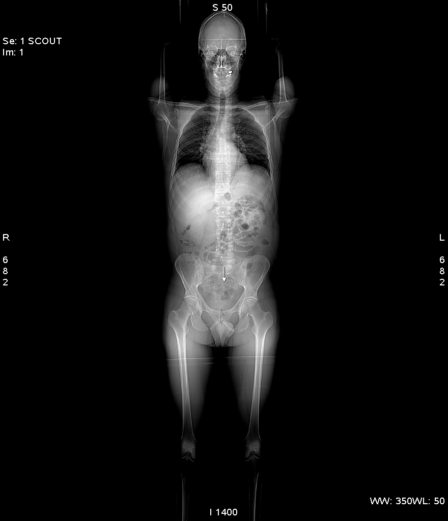 typical CT Scout view as used for planning an exam